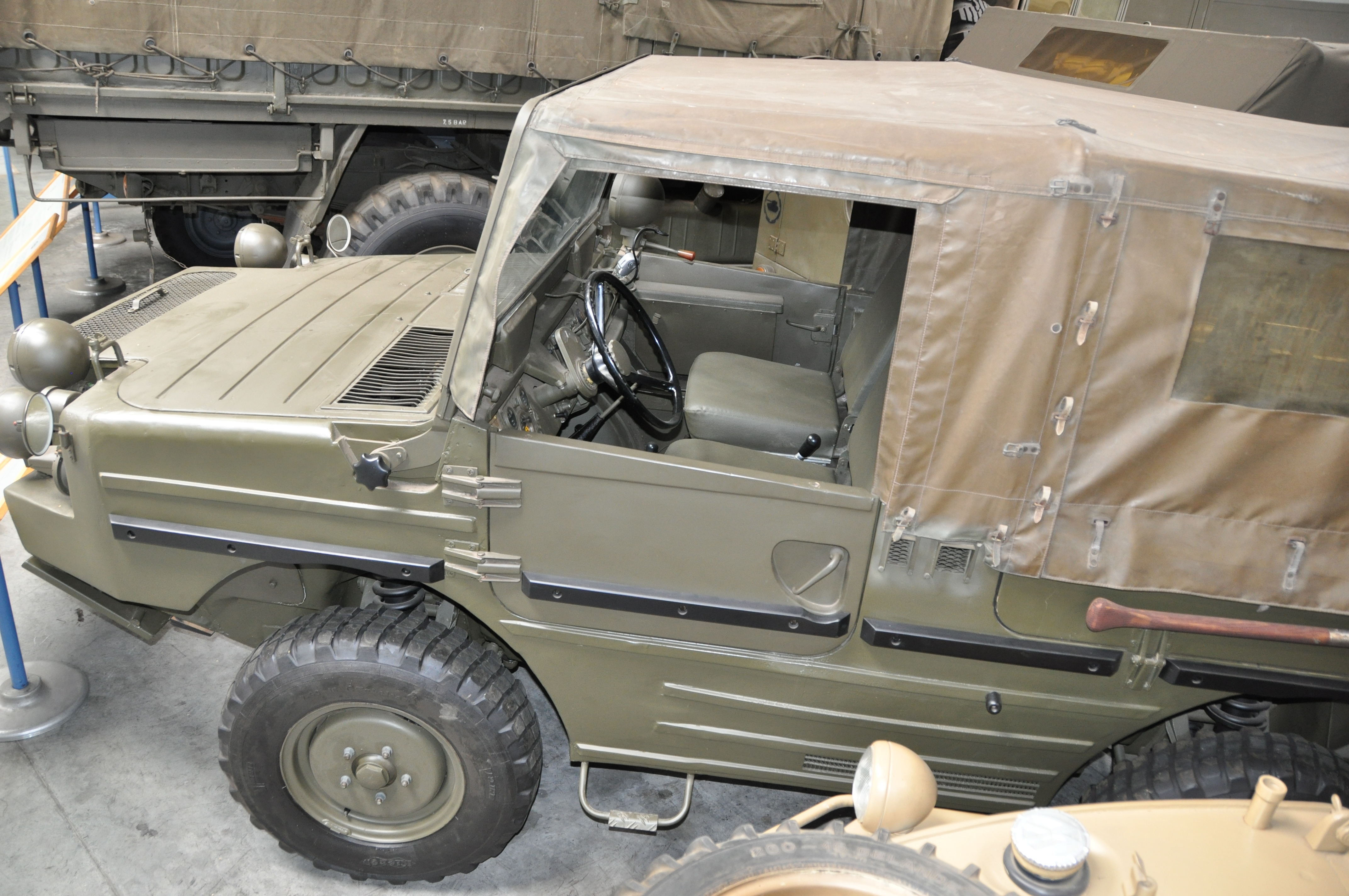 left side of the Europa-Jeep Hotchkiss-Bussing-Lancia